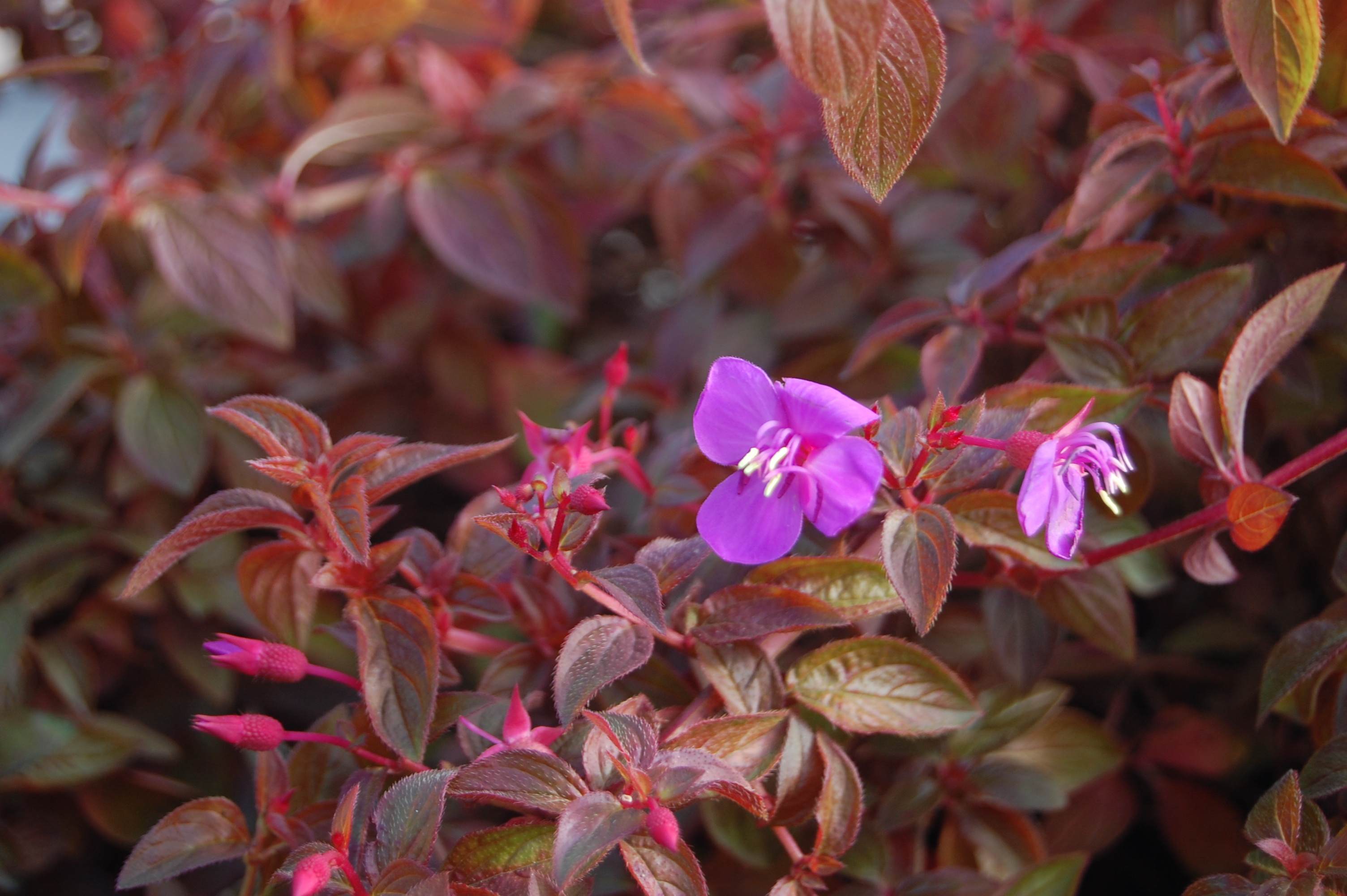 Centradenia floribunda “Trailing Princess Flower”